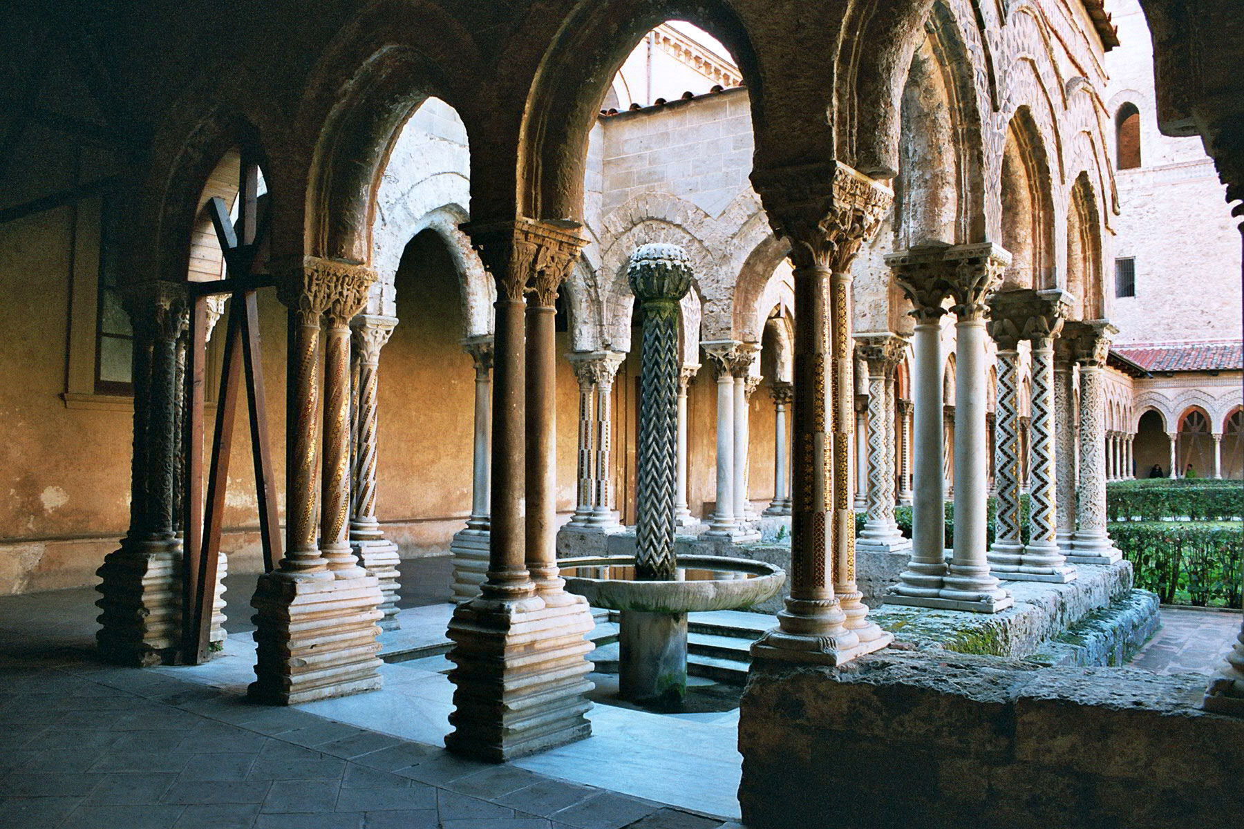 Cathedral of Monreale, fountain in the cloister